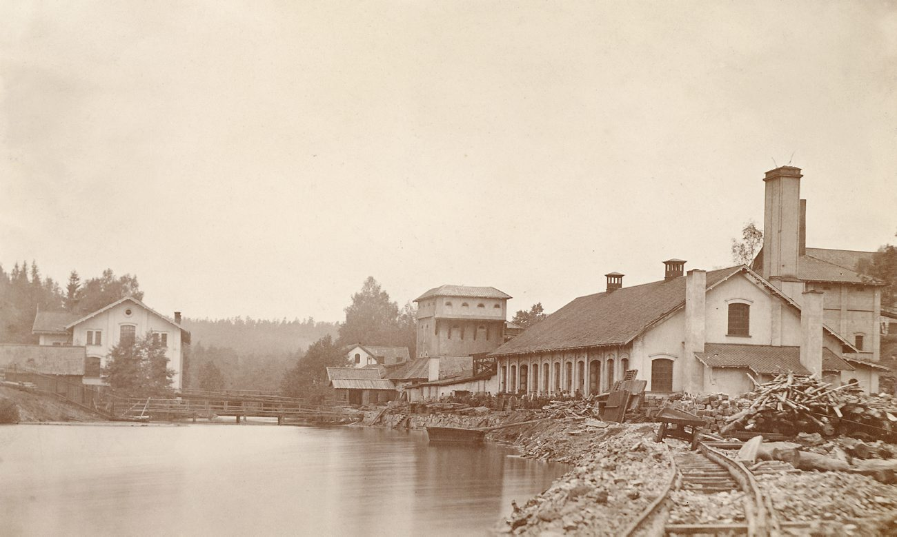 Ankarsrums Ironworks, Sweden.